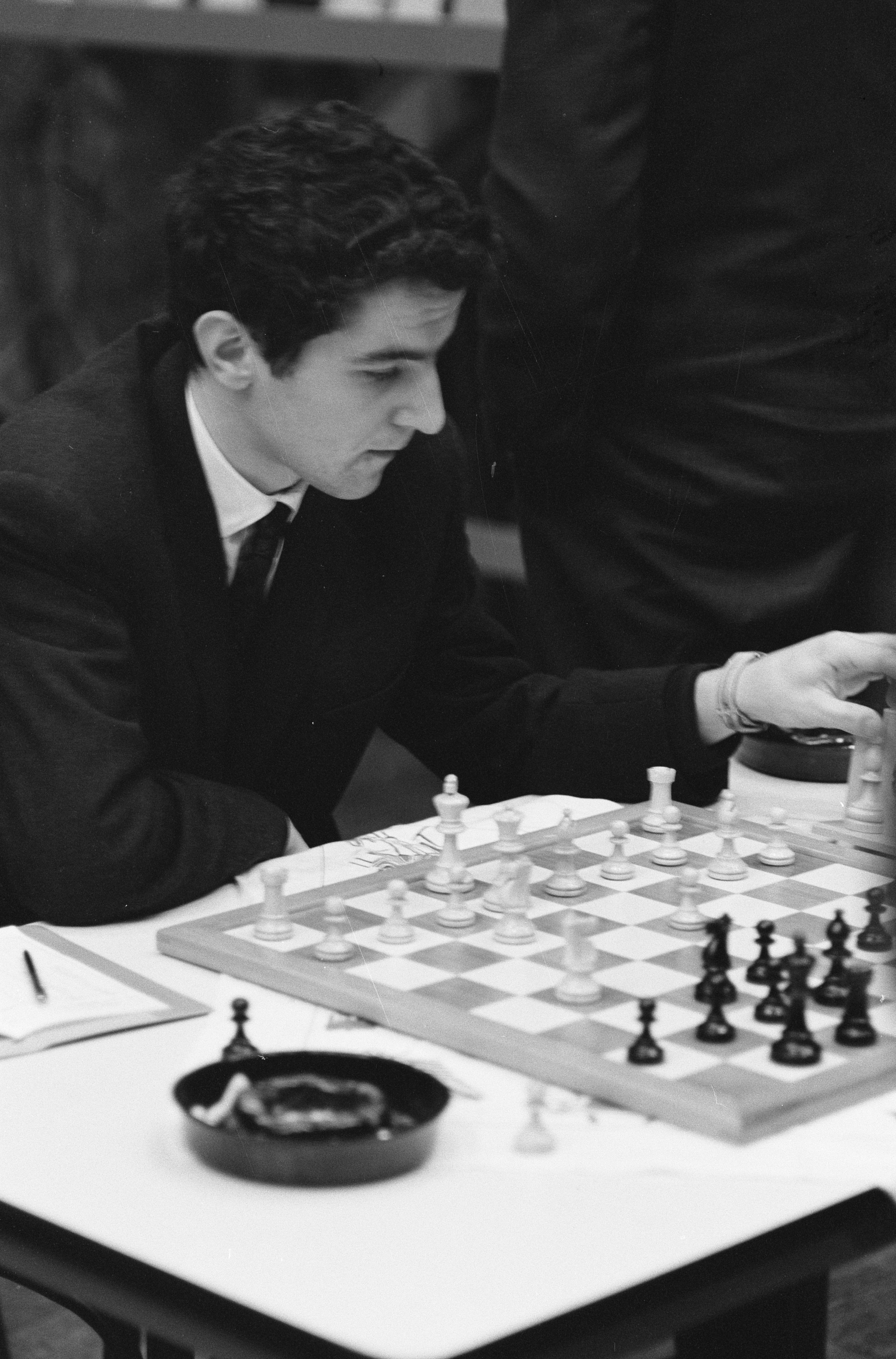 Bruno Parma at Hoogoven